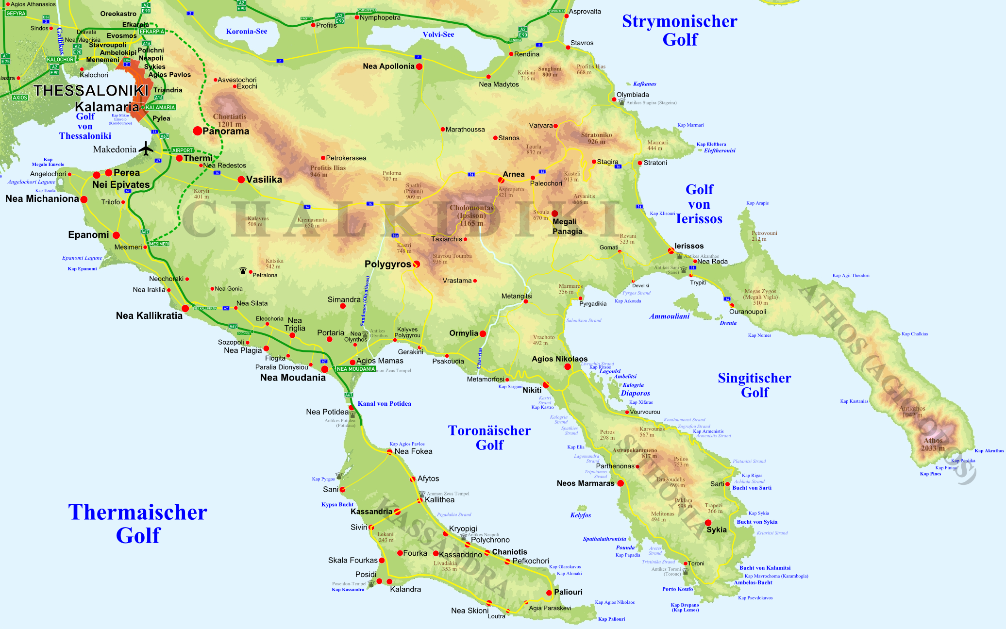 Topographic Map of Chalkidiki peninsula, Greece, supplemented with roads, settlements, topographic designations